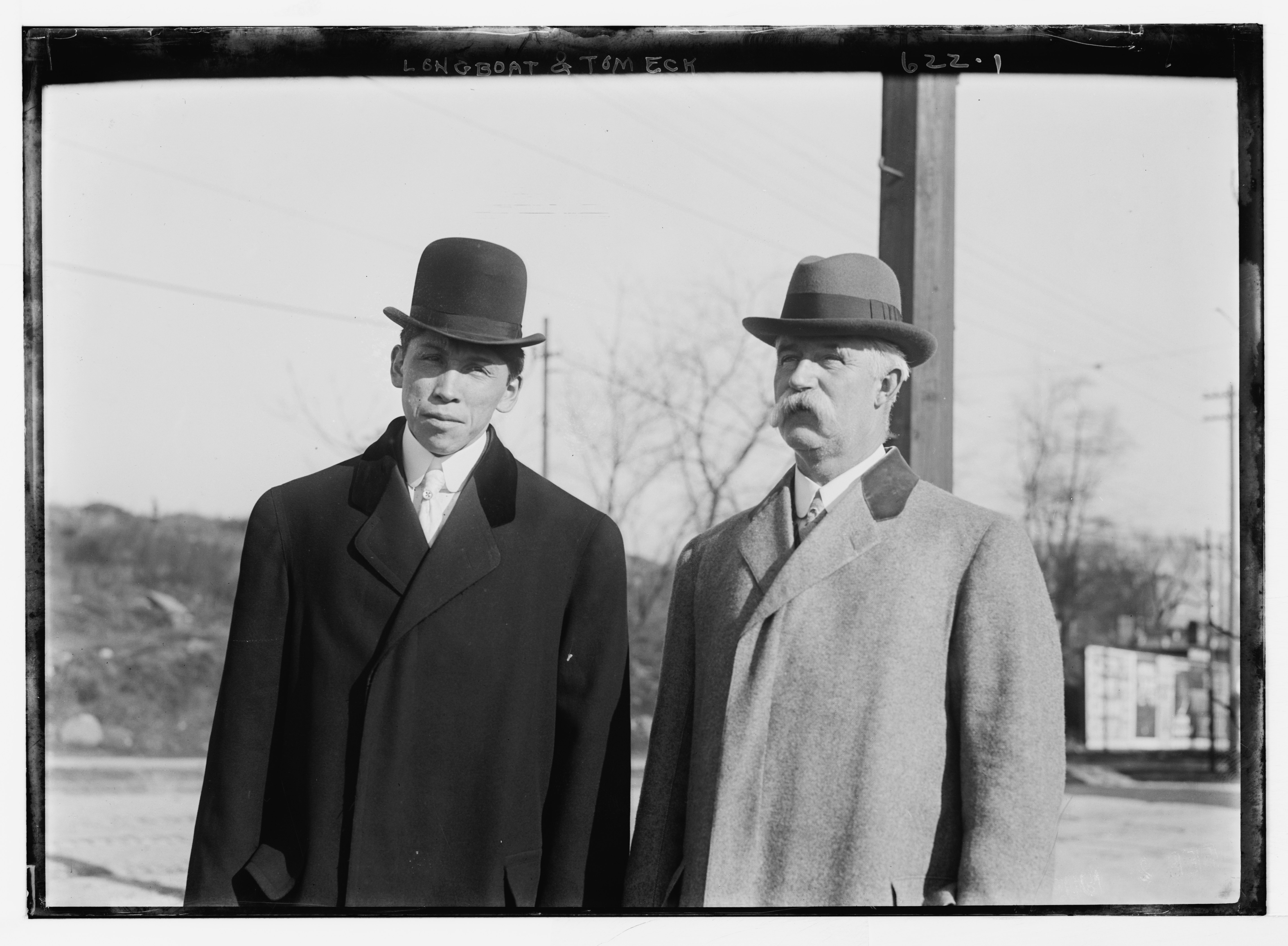 Title: Longboat and Tom Eck Abstract/medium: 1 negative : glass ; 5 x 7 in. or smaller.